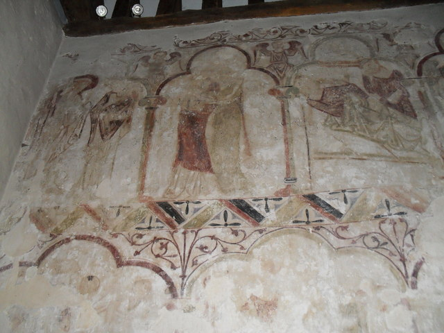 Ancient wall paintings within St Mary's, West Chiltington